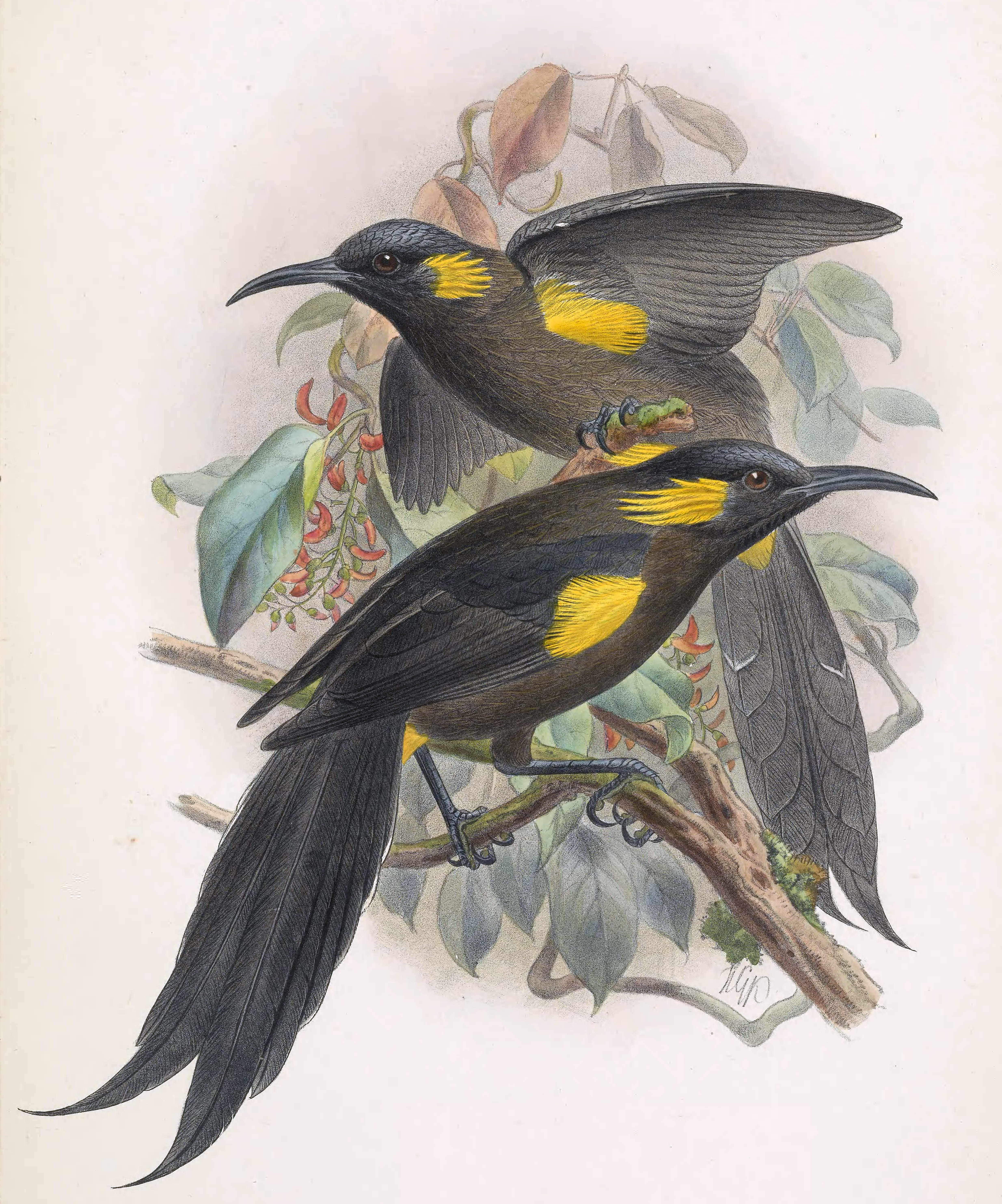 Male and female Bishop's Oo Moho bishopi. Depiction by John Gerrard Keulemans from 'The Avifauna of Laysan and the neighbouring islands with a complete history to date of the birds of the Hawaiian possession' by Walter Rothschild from the years 1893 to 1900.